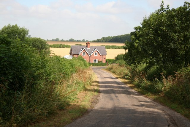 Panton. Down the hill to a house called Park View in the sleepy hamlet of Panton